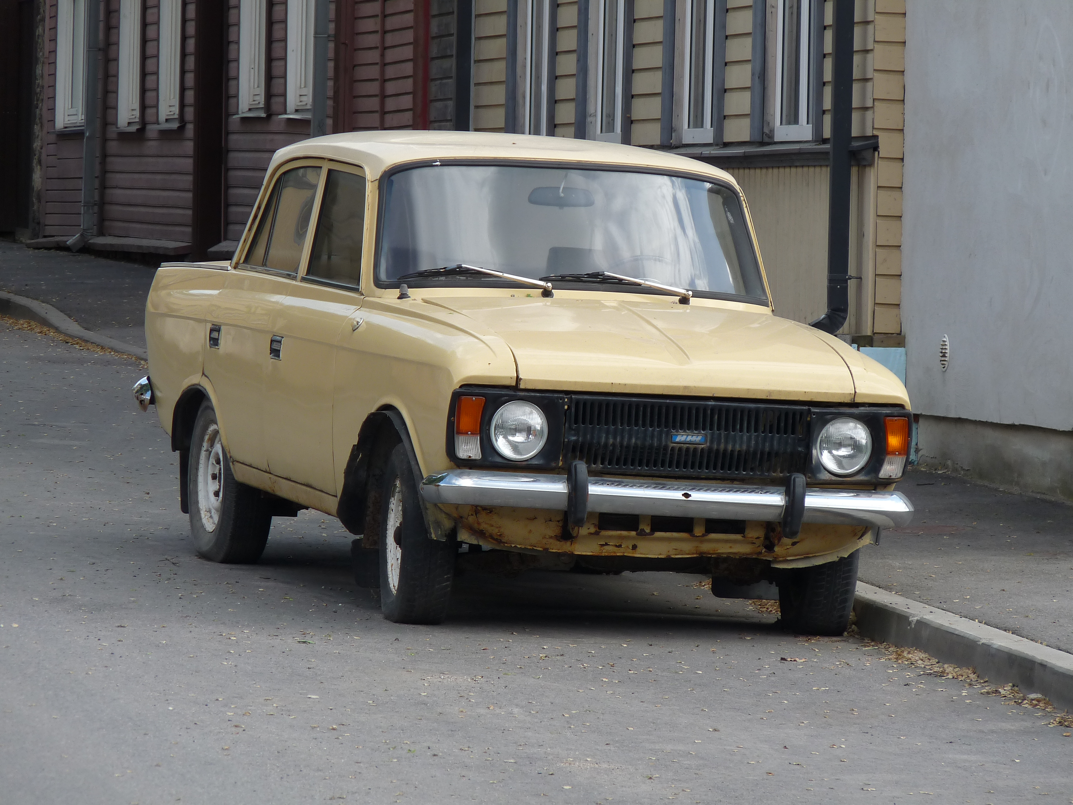 Moskvich in Tallinn, Estonia